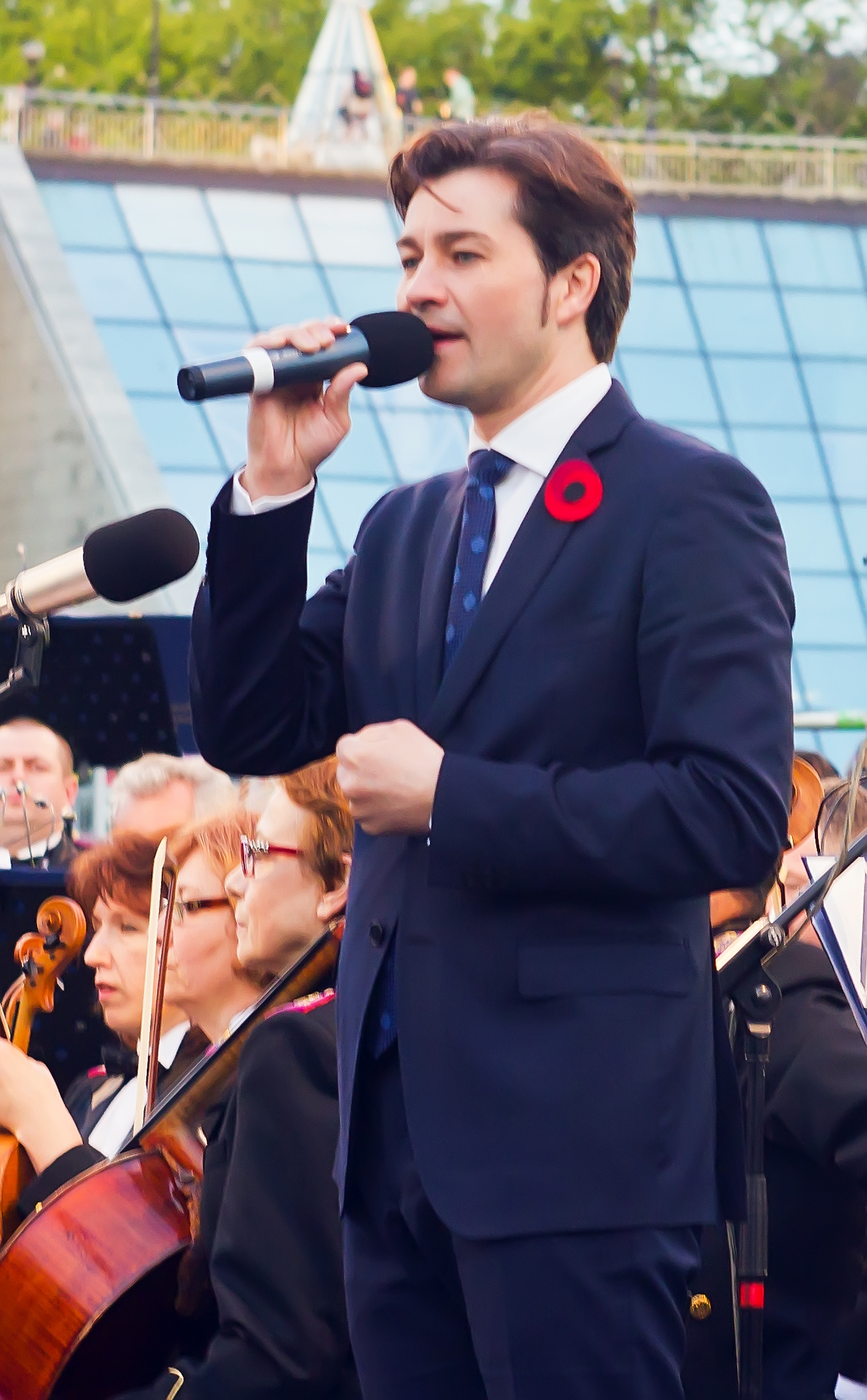 Minister of Culture of Ukraine.